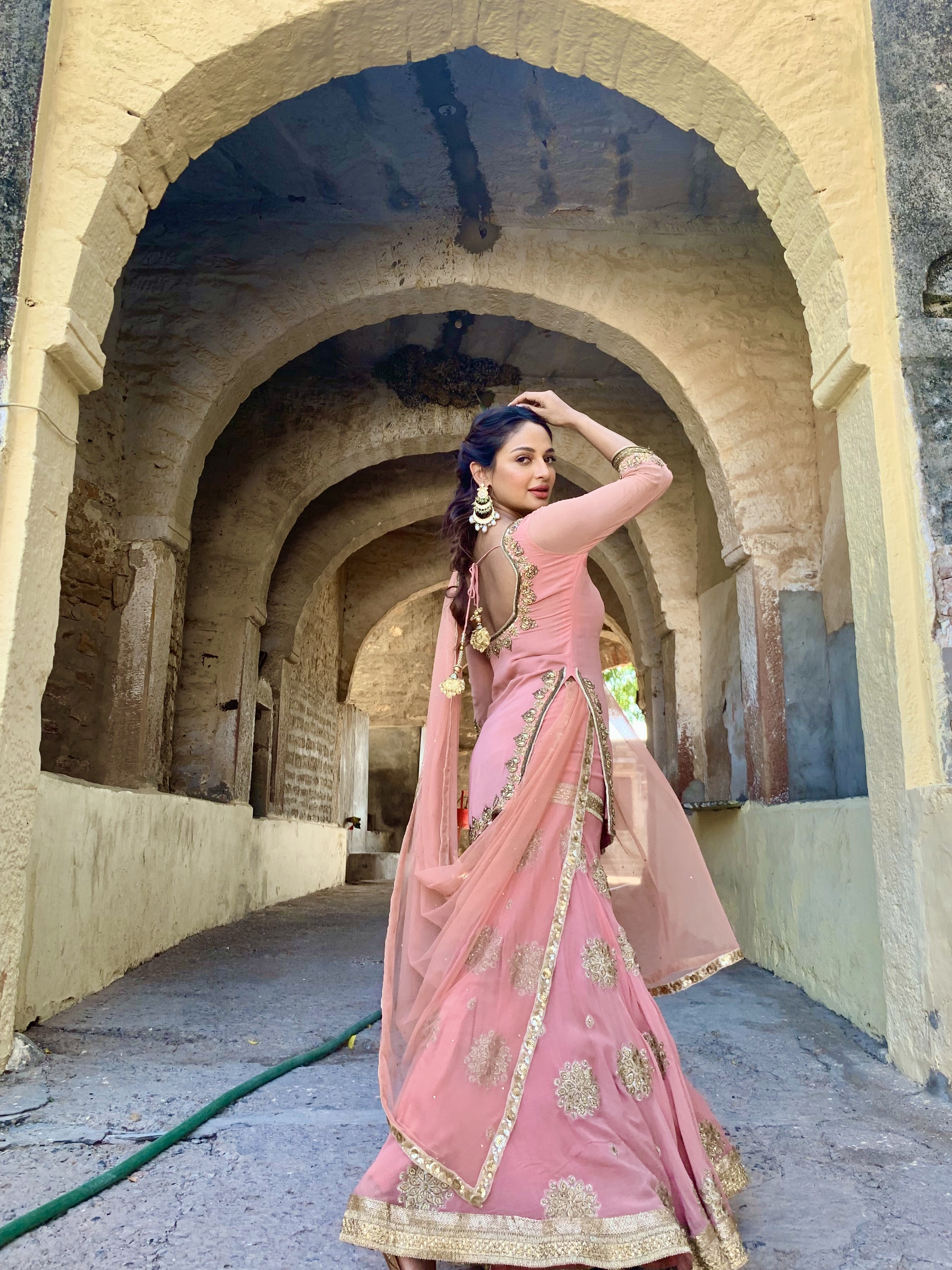 Personal photo taken by me of Rubina Bajwa in Rajasthan 2019.